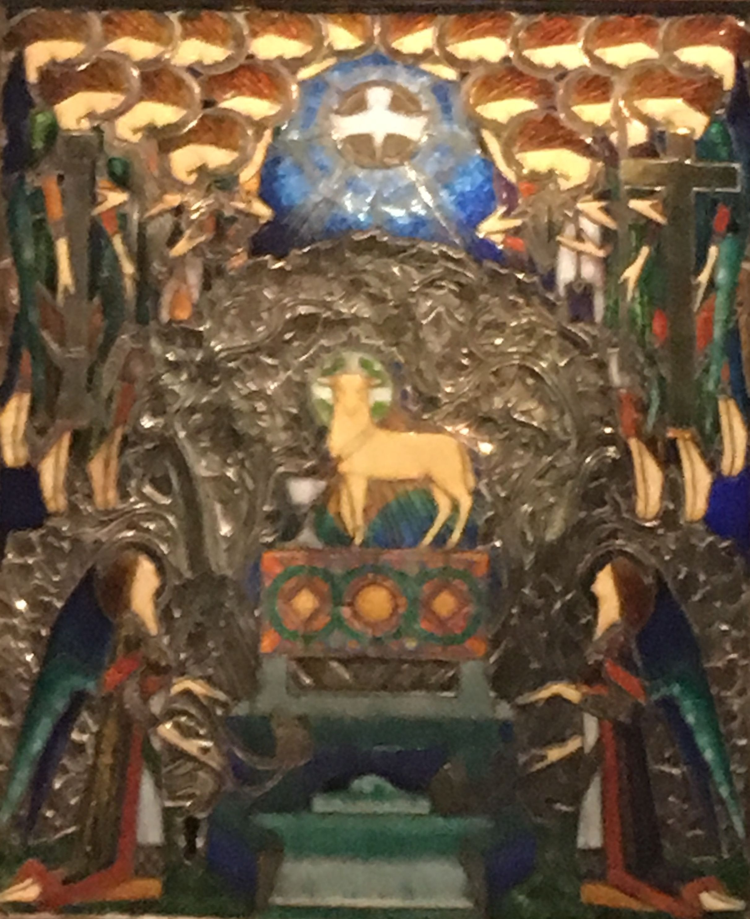 Honan tabernacle